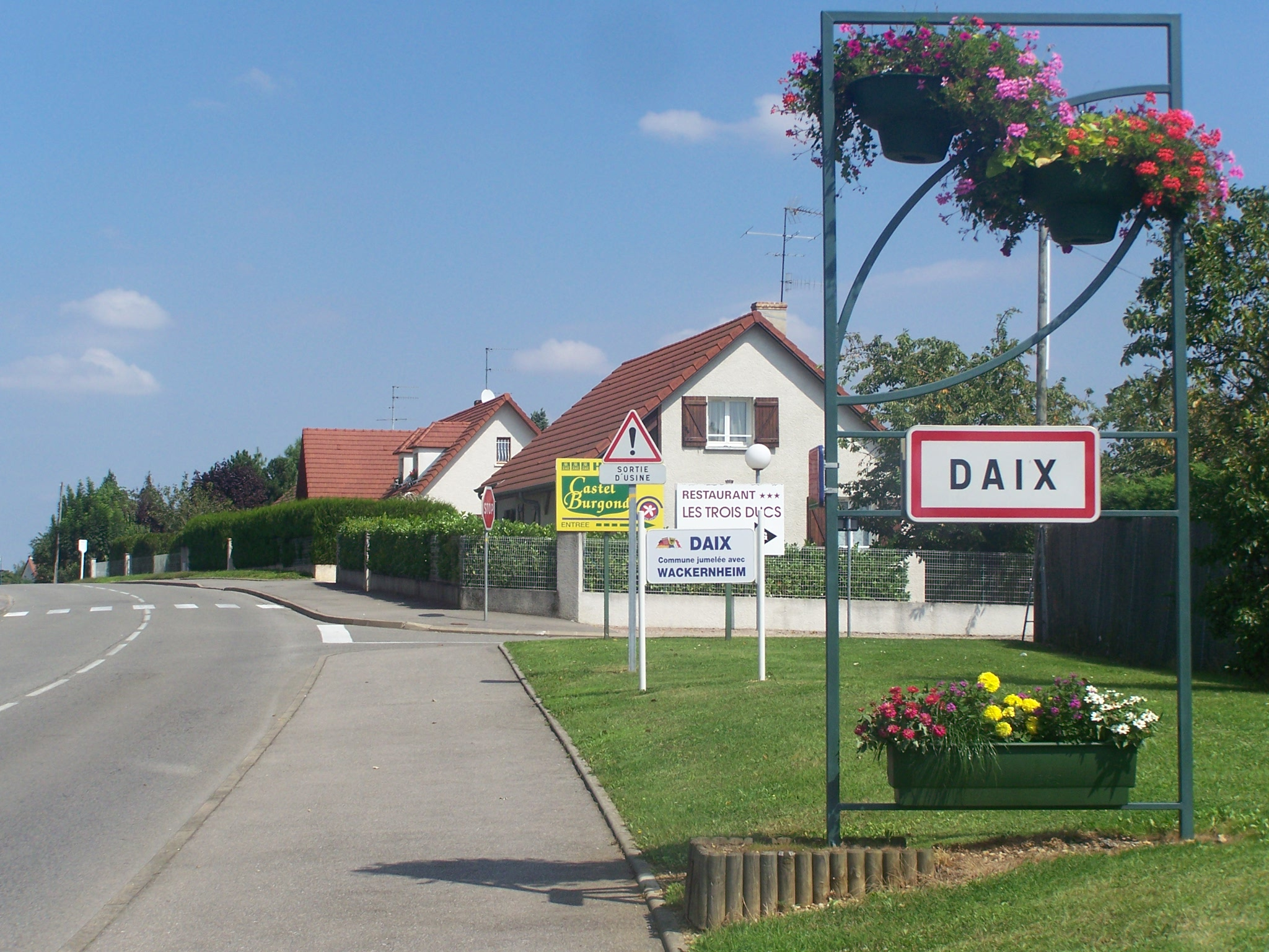 Sign welcoming visitors to the French commune of Daix near Dijon in Côte-d'Or.